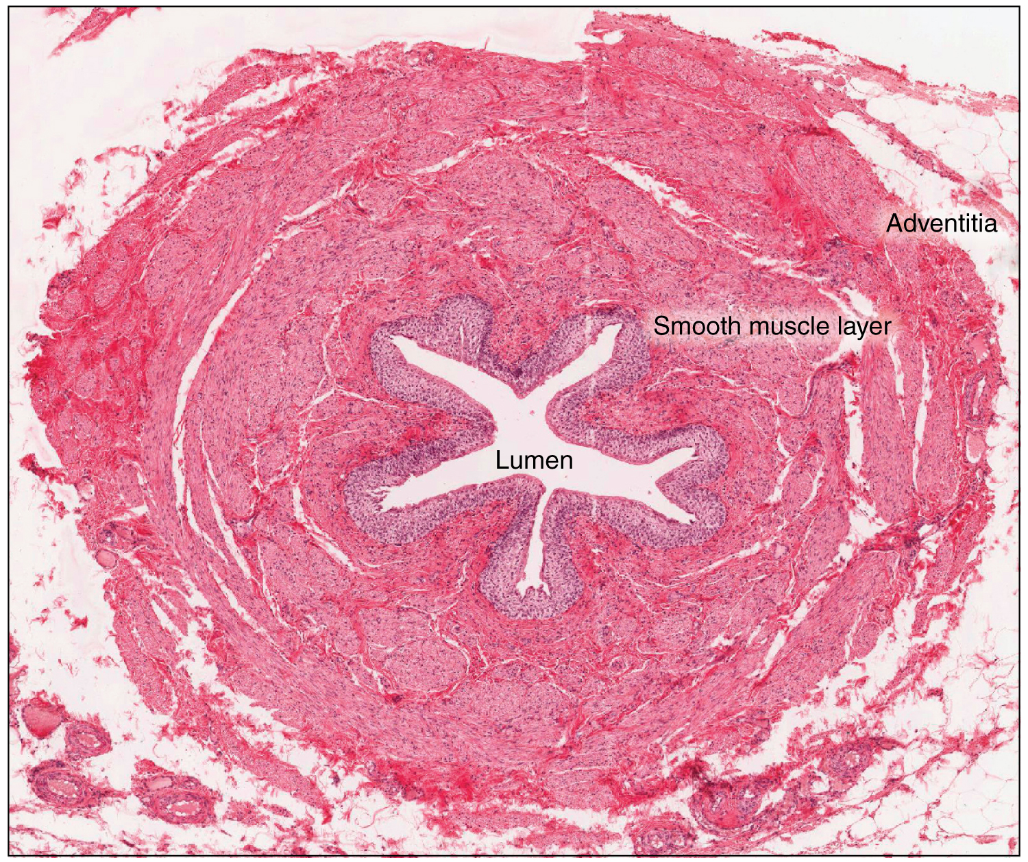 Illustration from Anatomy & Physiology, Connexions Web site. Jun 19, 2013.